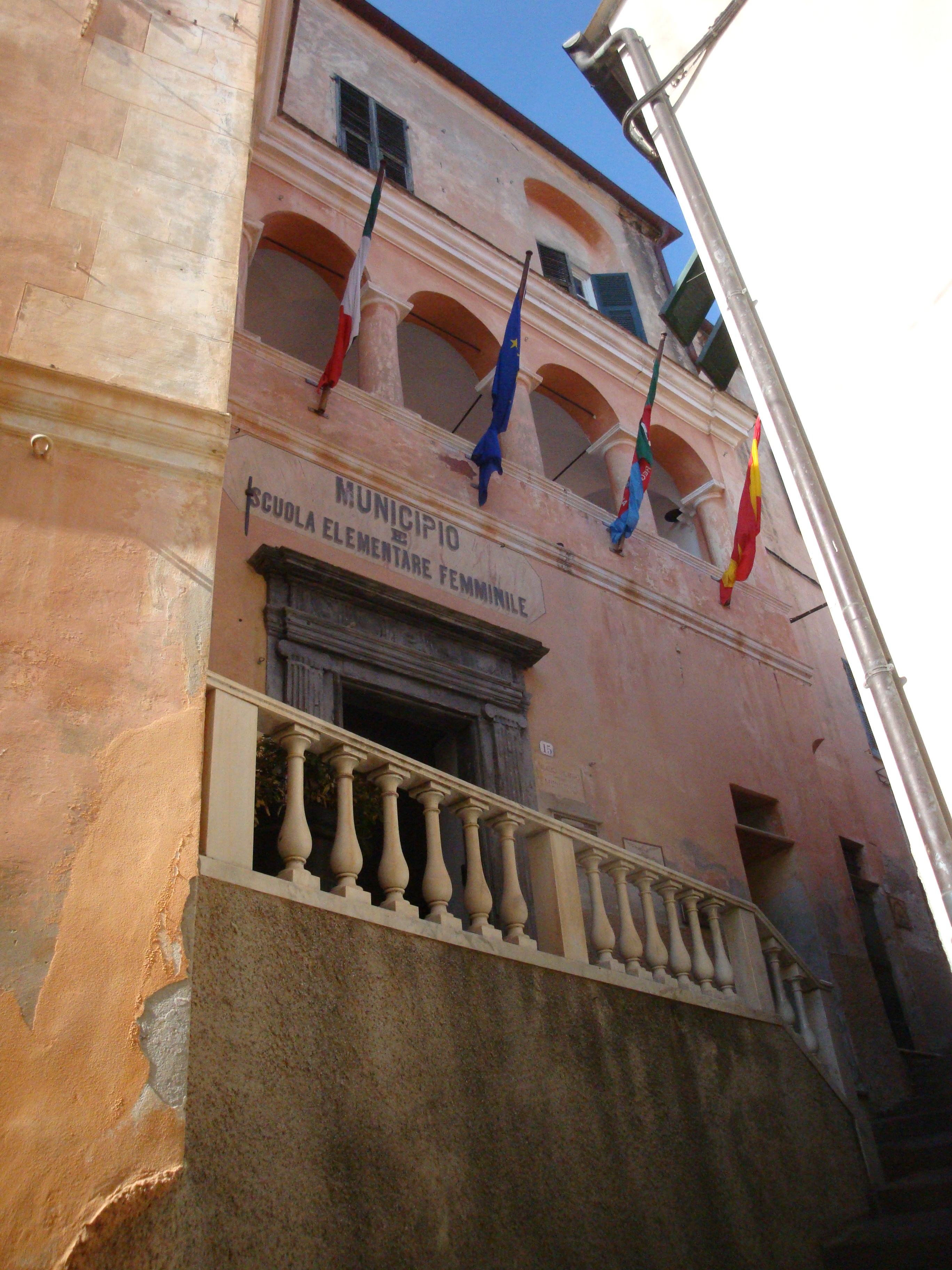 School/town hall in Cervo, Italy